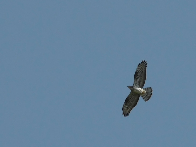 Honey Buzzard (Pernis apivorus) taken at Weikendorfer Heide, Europe, by Jo Kurz, Austria.